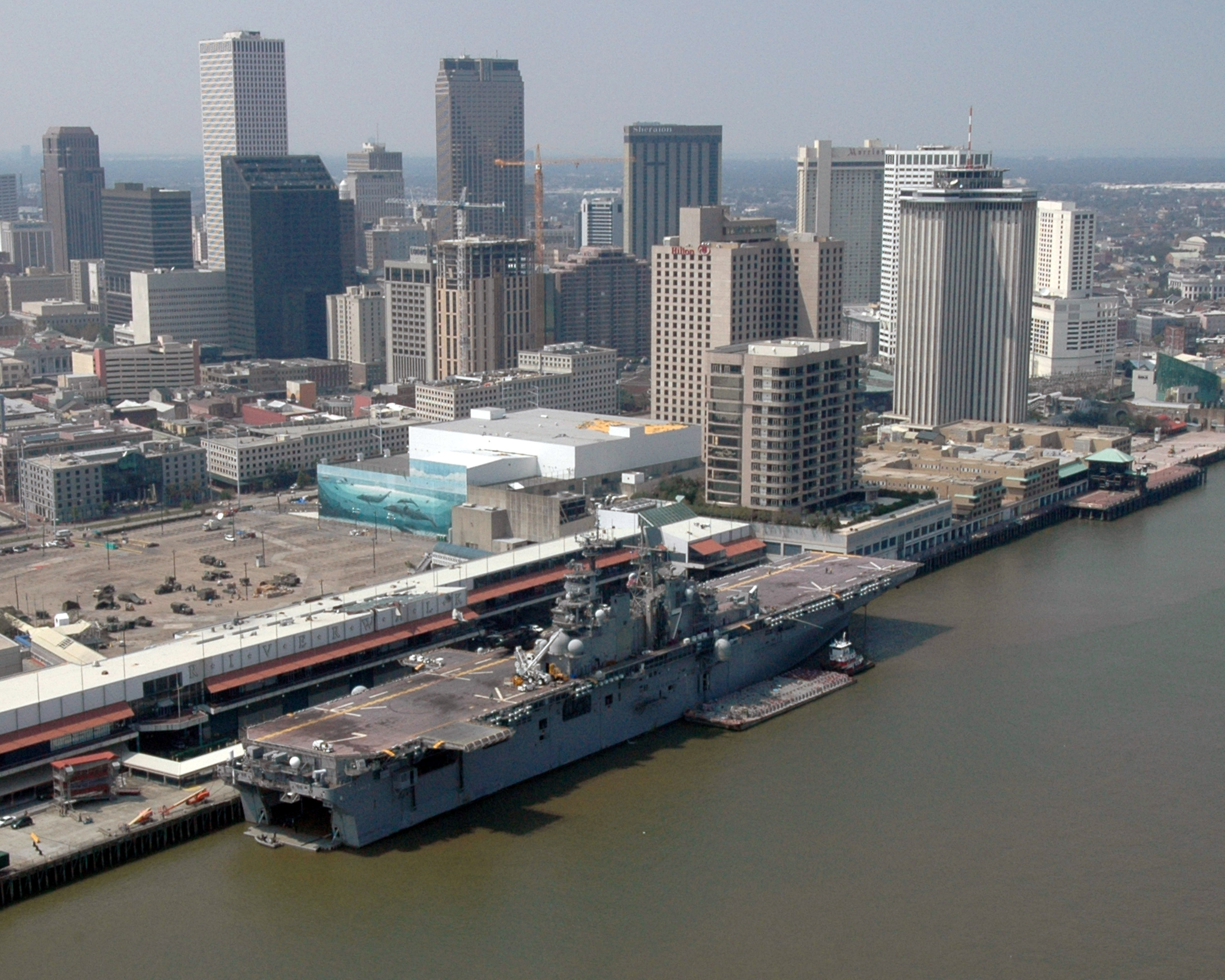 Public Domain. Source: DOD. All images on this site from the Department of Defense are believed to be in the public domain. DOD specifically states: "All of these files are in the public domain unless otherwise indicated. However, we request you credit the photographer/videographer as indicated or simply "Department of Defense." See image use policy. For more information or to search DOD click here. Available information on this specific image appears below. _____________________________ PLEASE DO NOT ATTRIBUTE IMAGES FROM THIS COLLECTION TO PINGNEWS. You may say "via" pingnews or found through pingnews. You may also thank the "pingnews photo service." Here, we are serving as A FREE PHOTO SERVICE and NOT THE ORIGINATOR/CREATOR of these images NOR the archival location. Any credit should be given to the photographer (if known) and DOD as well as branch of the armed services. Refer to DOD's image use policy above. ________________________ Source description and credit info from the Department of Defense: Suggested credit: DOD/USN. Above USS IWO JIMA (LHD 7) is pier side New Orleans The multi-purpose, amphibious assault ship departed Norfolk to join other military assets as part of Joint Task Force Gulf Coast to bring much-needed supplies and relief efforts to Gulf Coast states ravaged by Hurricane Katrina. U. S. Navy Photo by Photographer's Mate Second Class (AW/SW) Robert Jay Stratchko